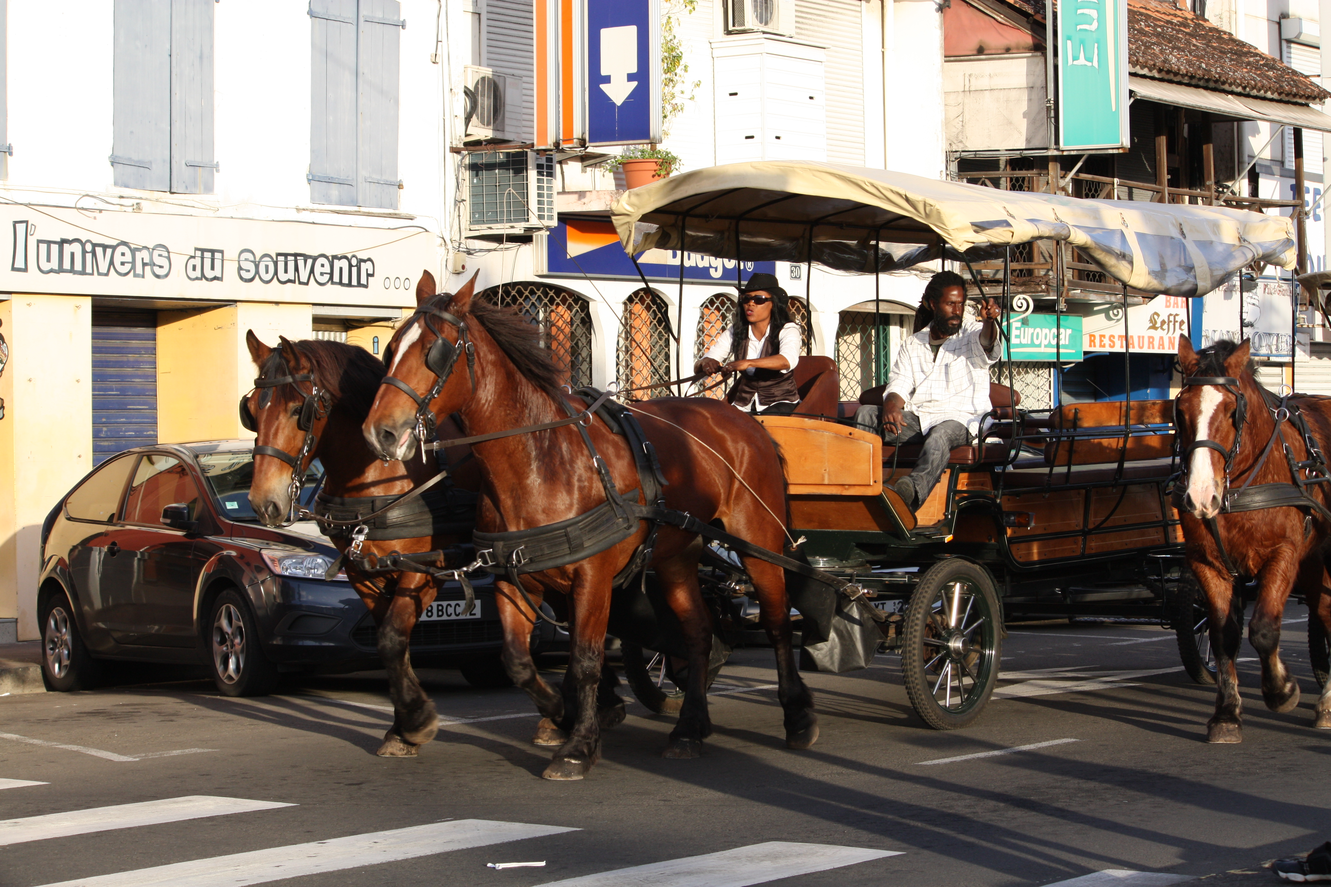 Horse and carriage on Rue Ernest Deproge in Fort-de-France, Martinique